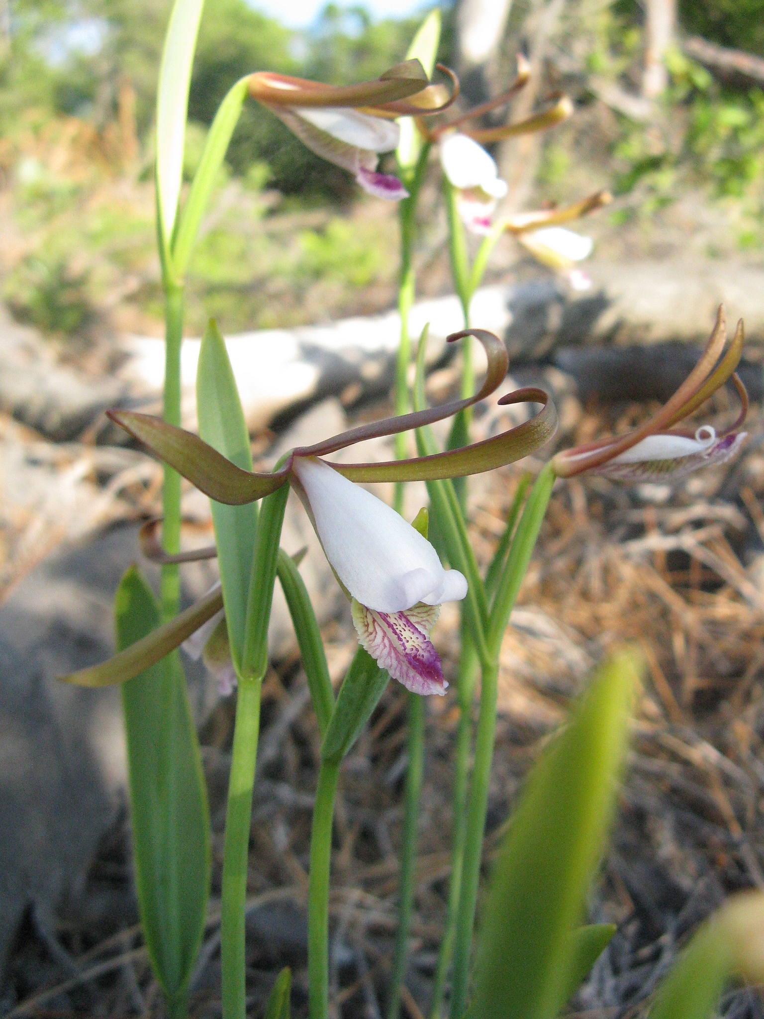 Cluster of Cleistesiopsis divaricata orchids in pine bog near Carrabelle Florida.